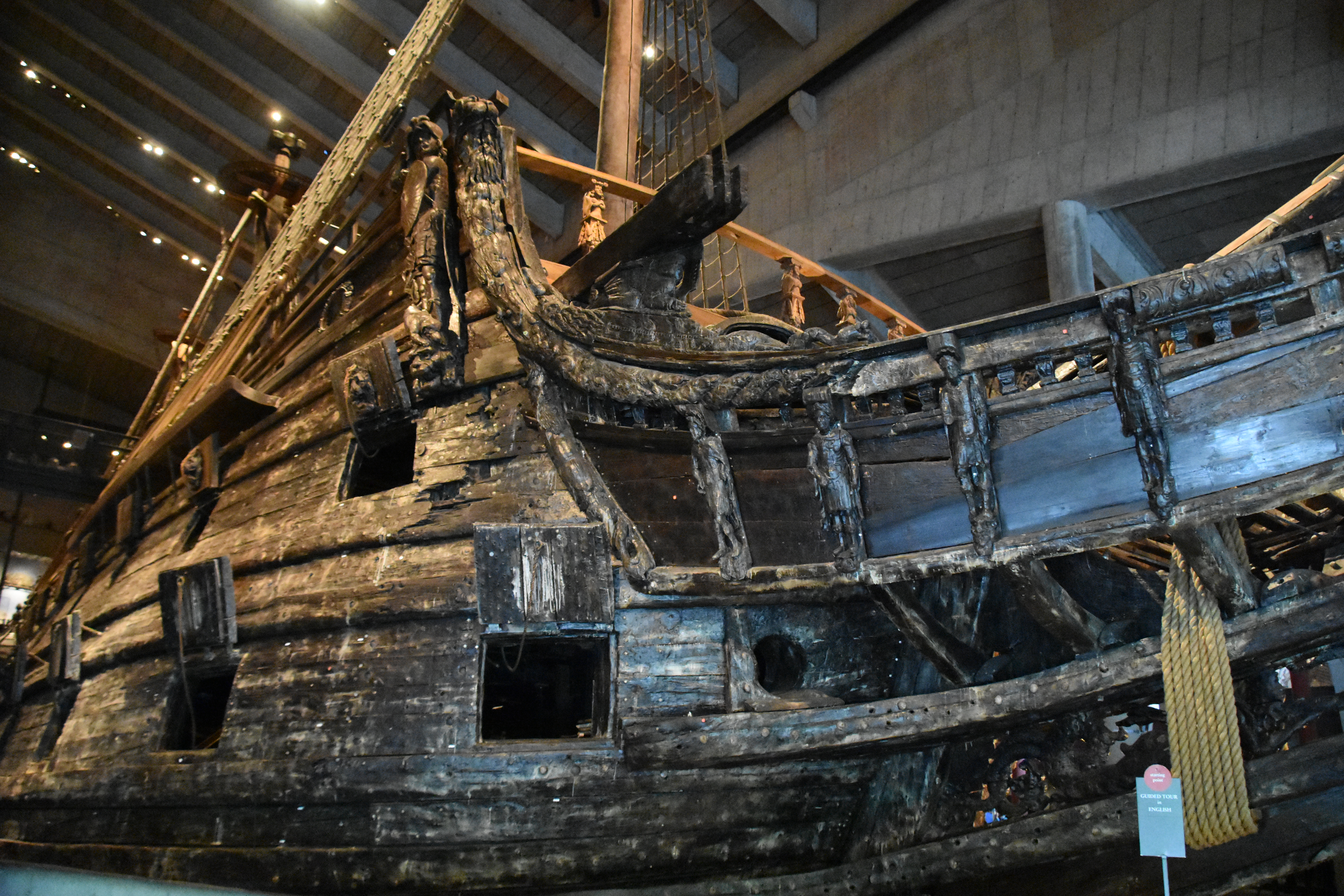 Swedish warship Vasa, sank 1628, Vasamuseet, Stockholm (6)